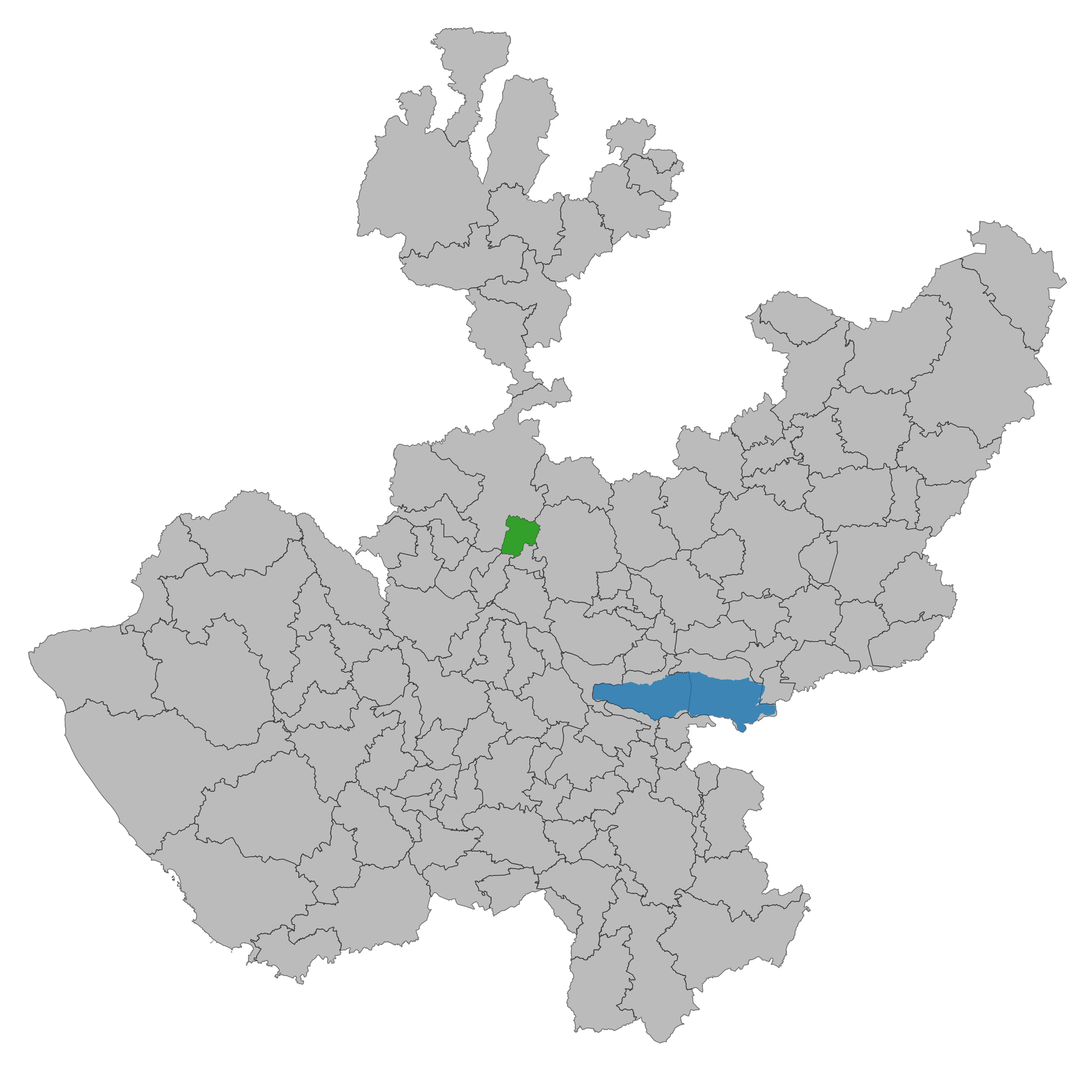 Municipality of Jalisco. Prepared with the software QGIS version 2.8.2 Wien & with information of SCINCE 2010 version 05/2013